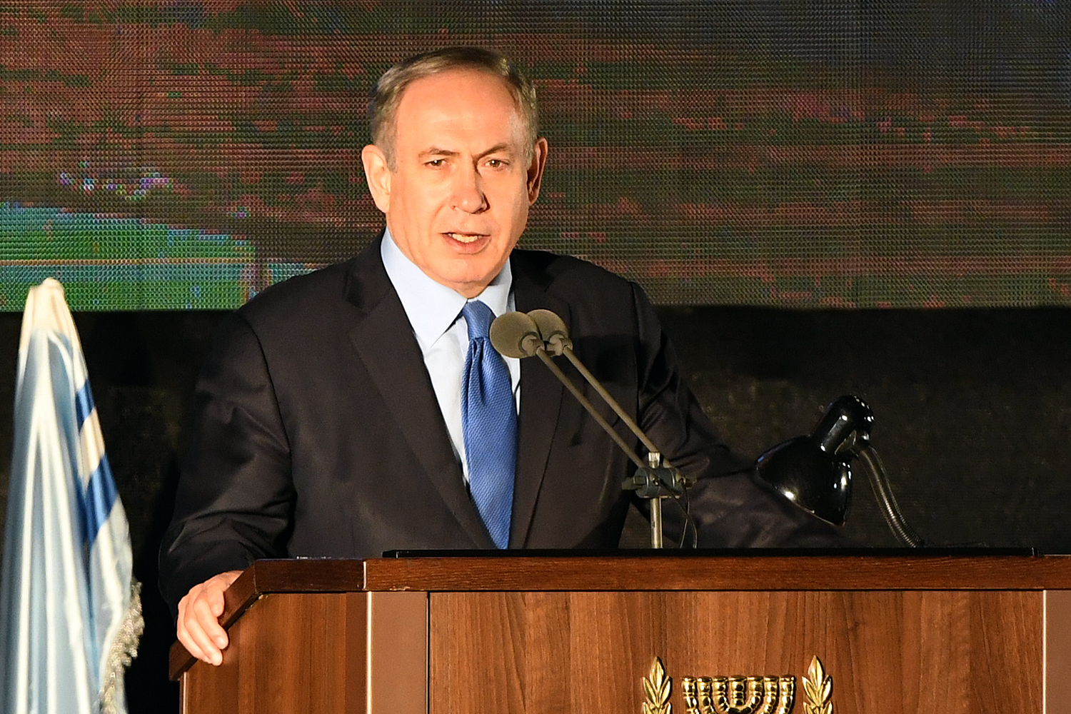 During a festive ceremony at Nevatim Air Force Base in southern Israel, on Monday, December 12, 2016, Israel received its first two fifth-generation F-35 Joint Strike Fighters, code-named by the Israeli Air Force as "Adir," (The Mighty One). The ceremony included thousands of invitees, and speeches by Prime Minister Benjamin Netanyahu and U.S. Secretary of Defense Ash Carter.